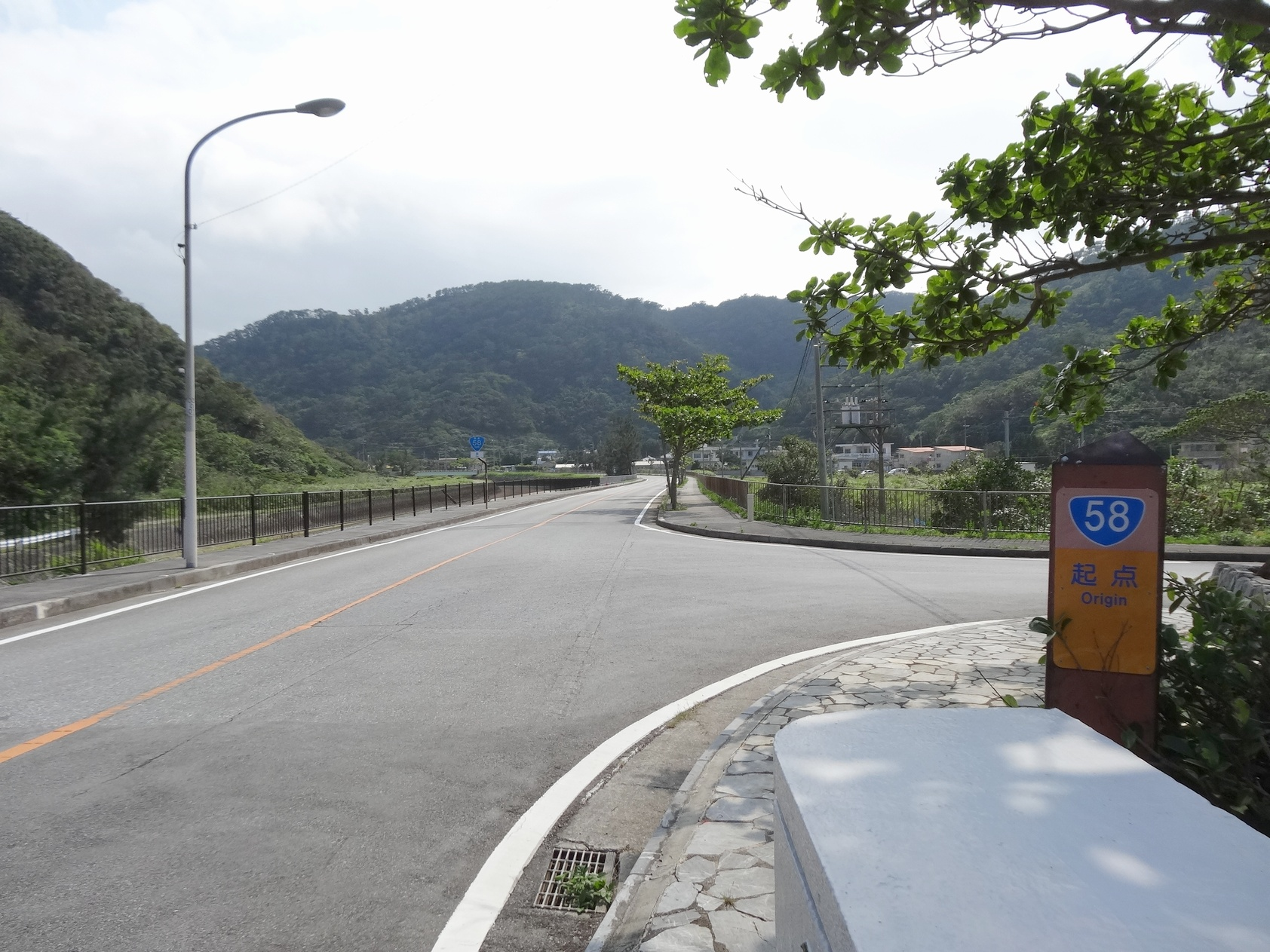 National Route 58 at Oku, Kunigami Village, Okinawa Prefecture, Japan.